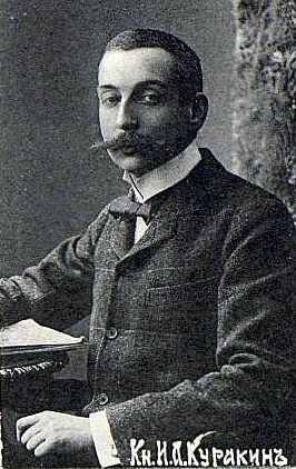 Prince Ivan Kurakin